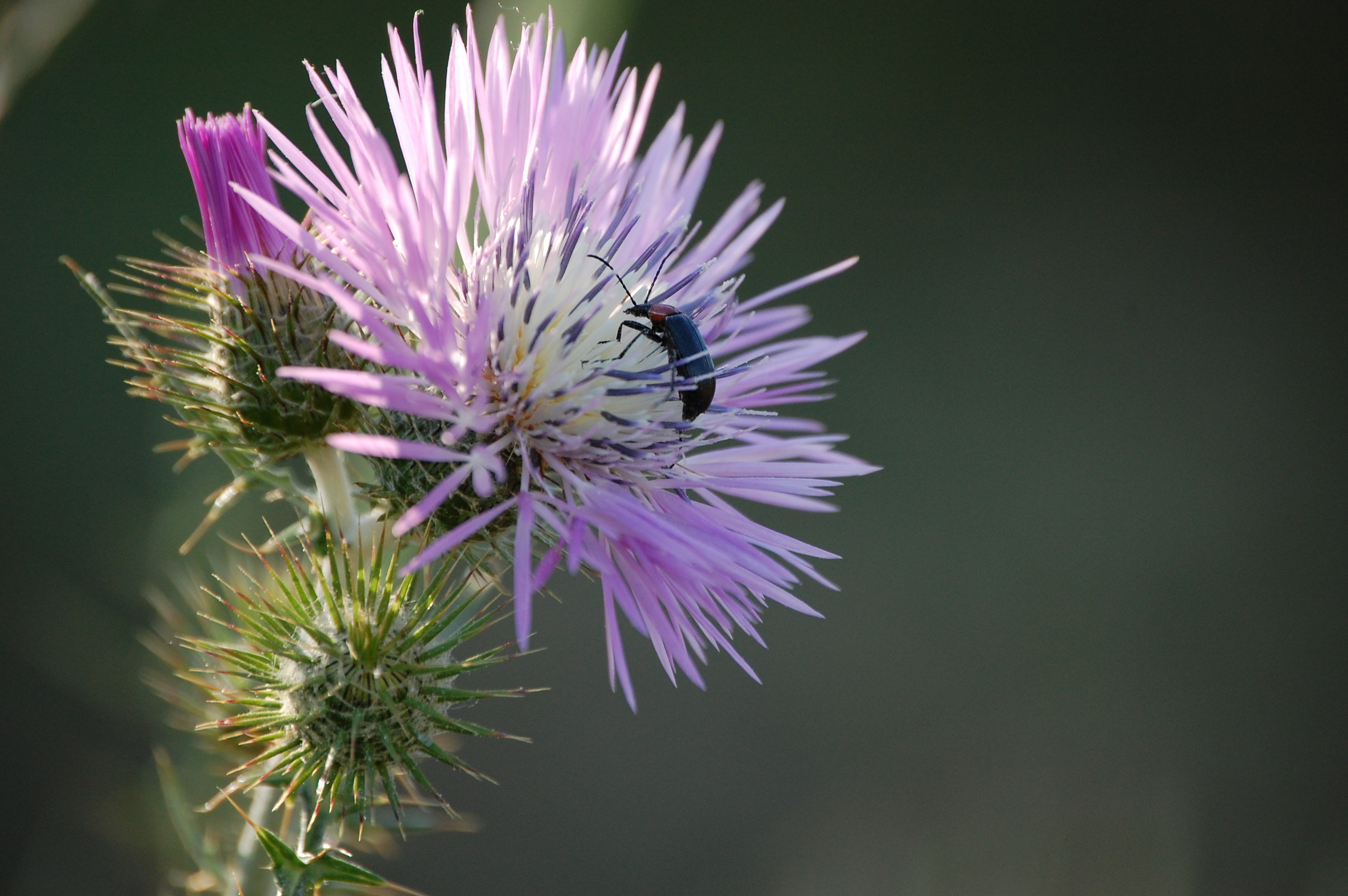 Galactites elegans flower (I doubt the id. Lycaon 07:22, 4 January 2008 (UTC))